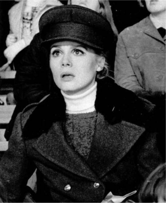 Photograph of Françoise Dorleac watching ice hockey during the cinematography of Billion Dollar Brain in Helsinki Ice Hall.